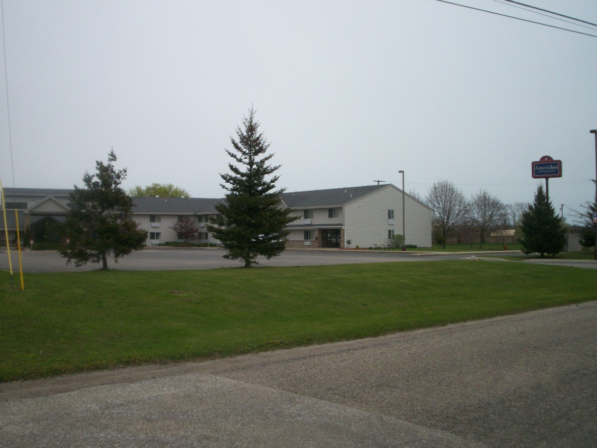 An AmericInn motel in Oscoda, Michigan.